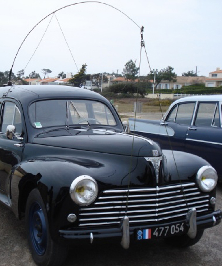 Peugeot 203 of the French Gendarmerie in 1950, with a tethered whip antenna for Near Vertical Incidence Skywave (NVIS) transmission on radio band of 3.4 to 4 MHz.